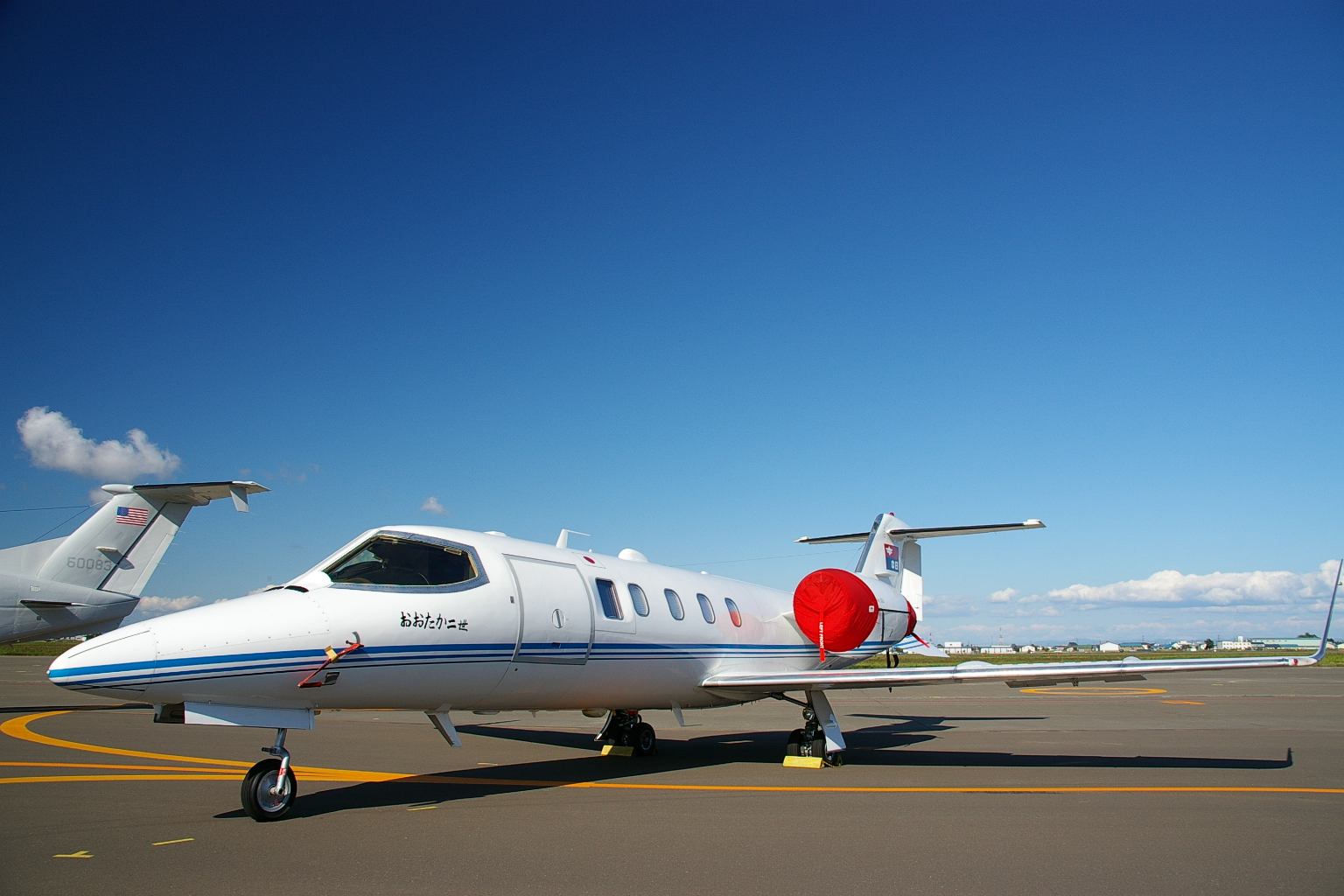 Learjet 31A.